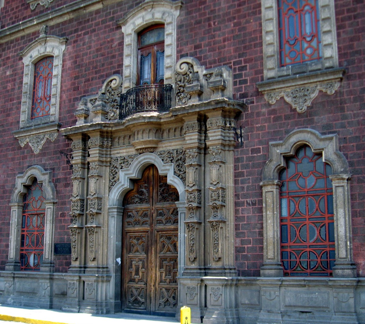 Portal to the left of the main portal of the Bolivar Amphitheater of San Ildefonso College in the historic center of Mexico City